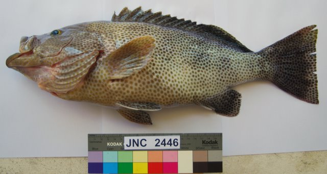 Epinephelus chlorostigma. Locality: External slope off Récif Toombo, off Nouméa, New Caledonia, deep-sea, depth 100-150 m. Fork length 502 mm. Weight 1,800 grams. Date 2008-01-04.